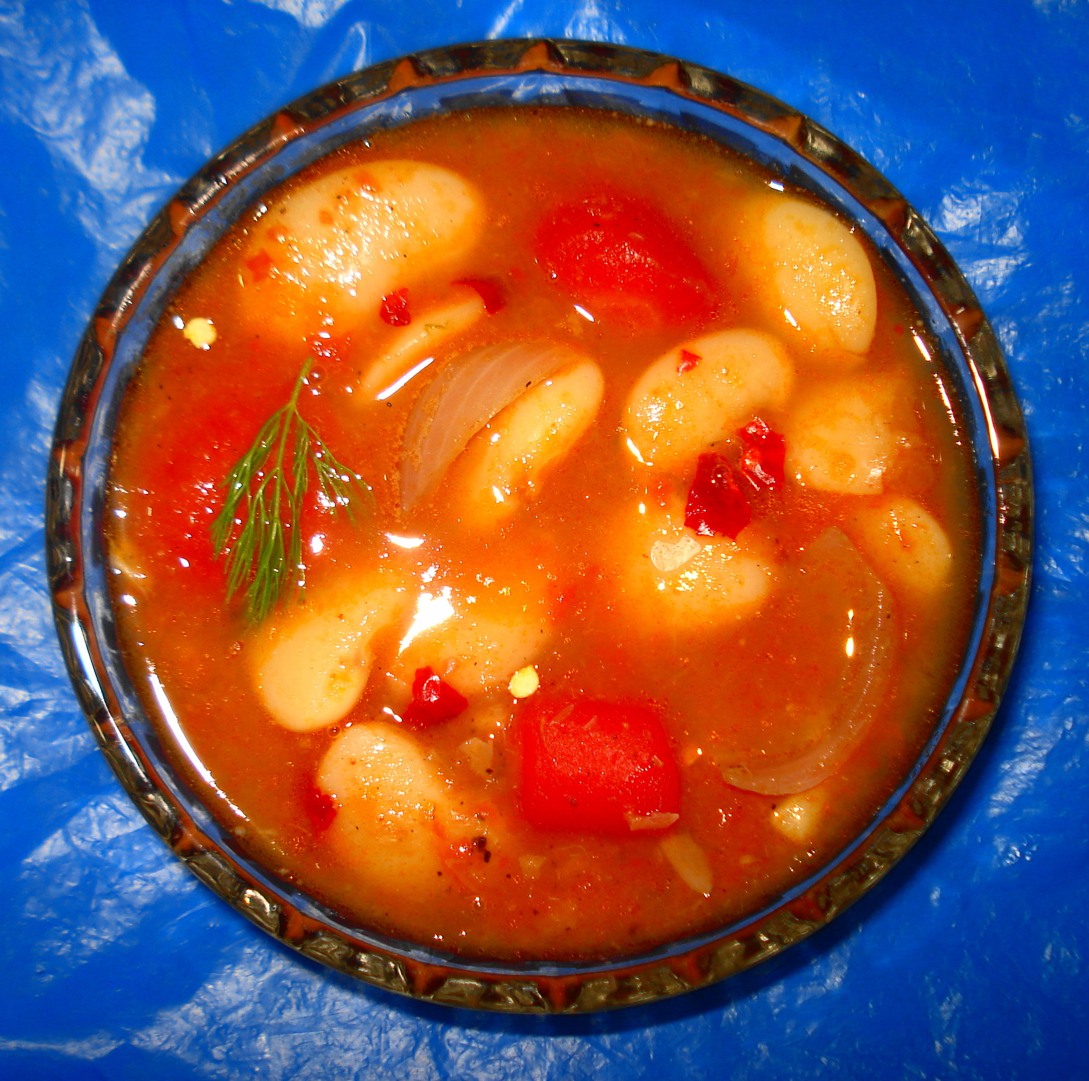 Fasolada/Fasolatha is a National dish of Greeck/Greek